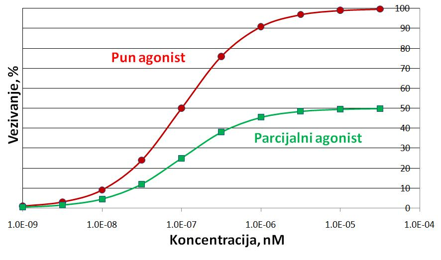 Two agonist with similar binding afinities